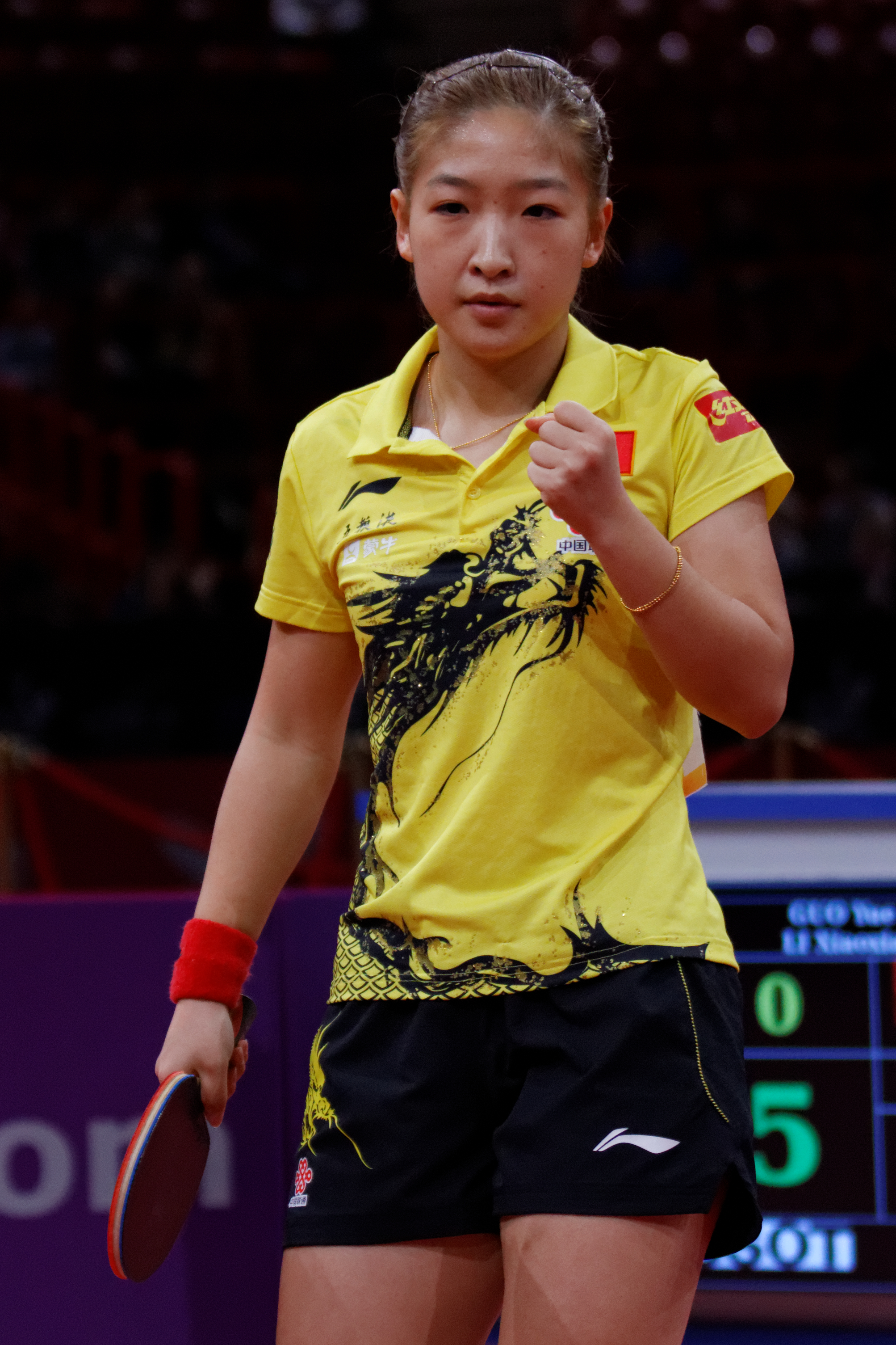 2013 World Table Tennis Championships, Paris. Women's Doubles Finals.